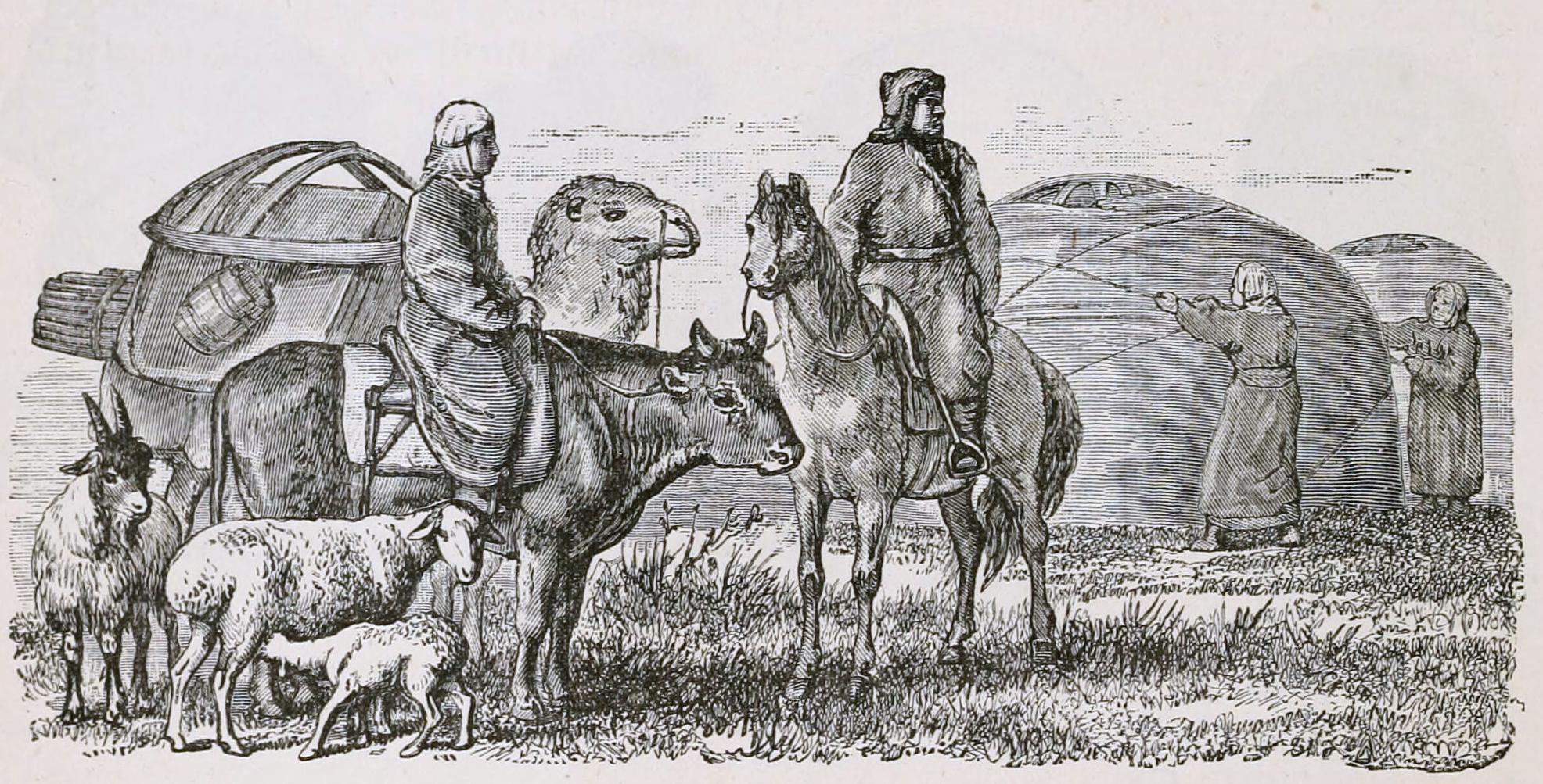 The illustrated history of the world for the English people. From the earliest period to the present time, ancient-mediaeval-modern. With many original high-class engravings Published [1881?-84?] Topics World history SHOW MORE 26 Volume 1 Publisher New York Ward, Lock Pages 928 Possible copyright status NOT_IN_COPYRIGHT Language English Call number AFU-0282 Digitizing sponsor MSN Book contributor Robarts - University of Toronto Collection robarts; toronto Scanfactors 9 Full catalog record MARCXML [Open Library icon]This book has an editable web page on Open Library.